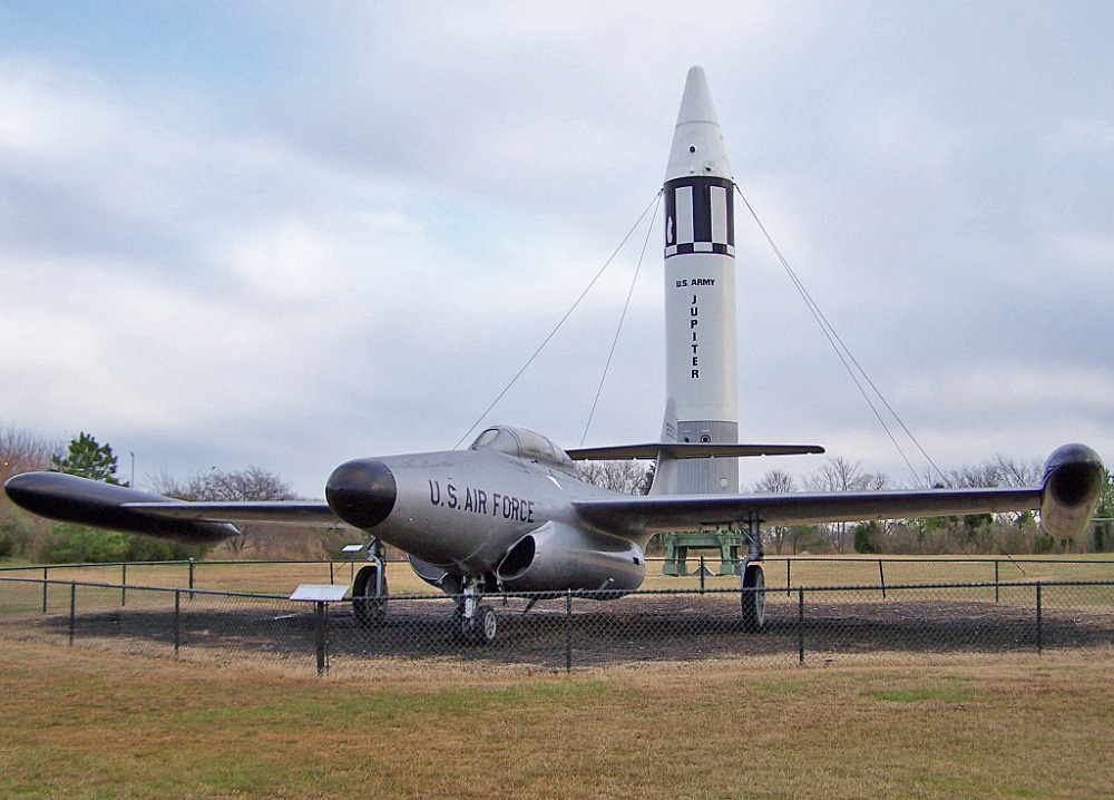 A former U.S. Air Force Northrop F-89J Scorpion (s/n 52-2129) at the Hampton Air Power Park, Virginia (USA), in 2007.